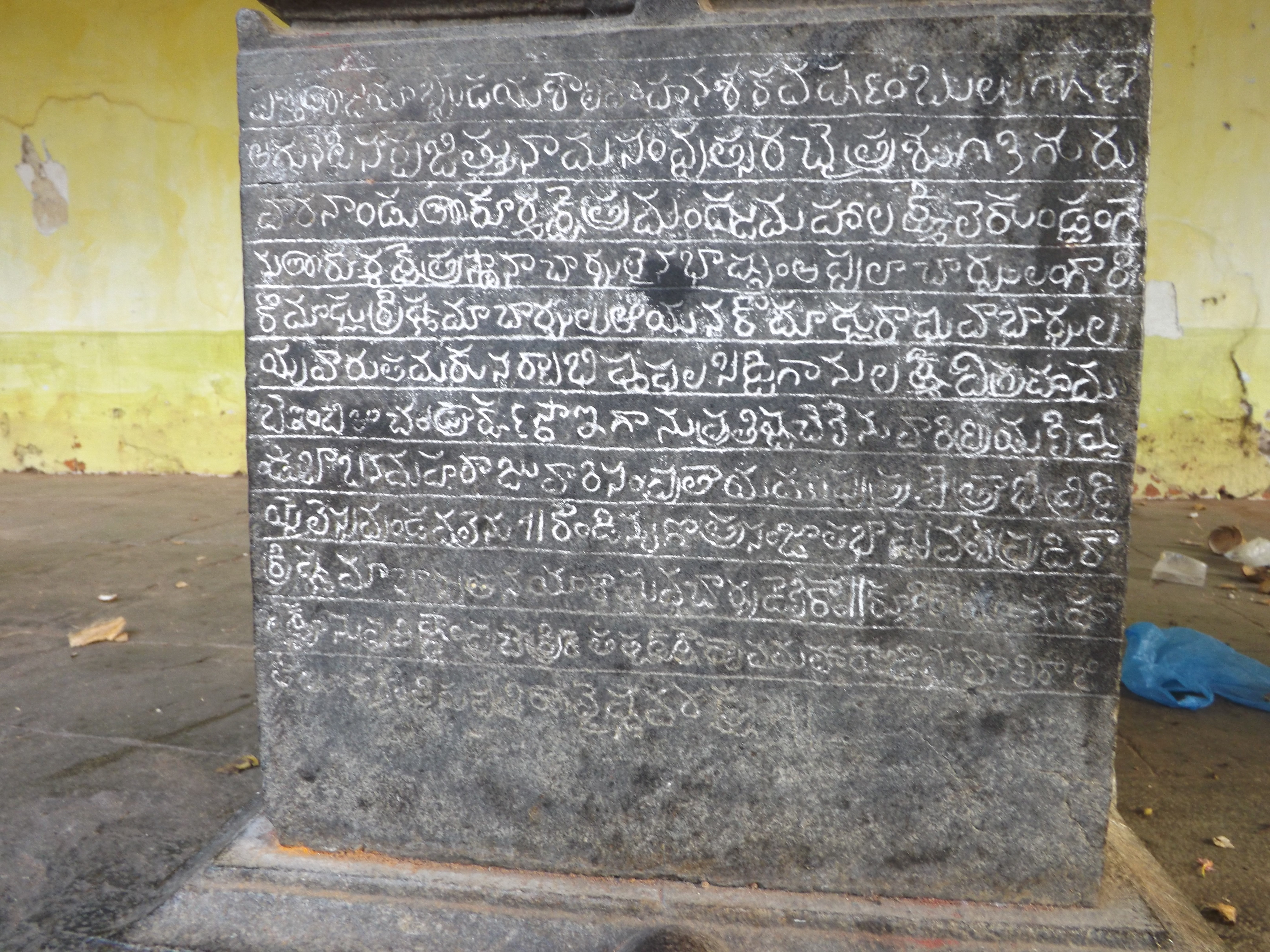 Kurmanatha Temple - Sreekurmam- Srikakulam -Andhrapradesh